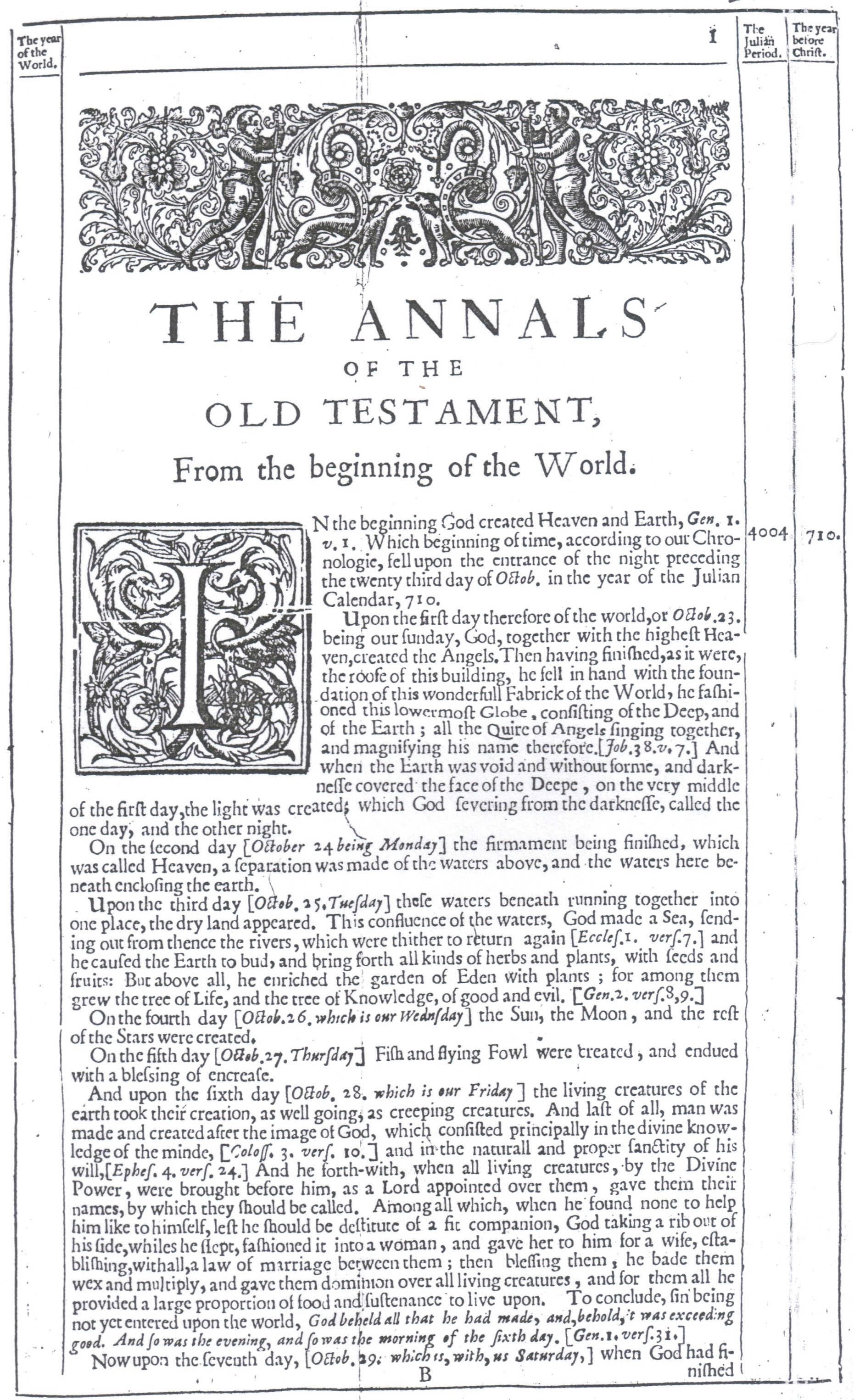 Annals of the World, page 1